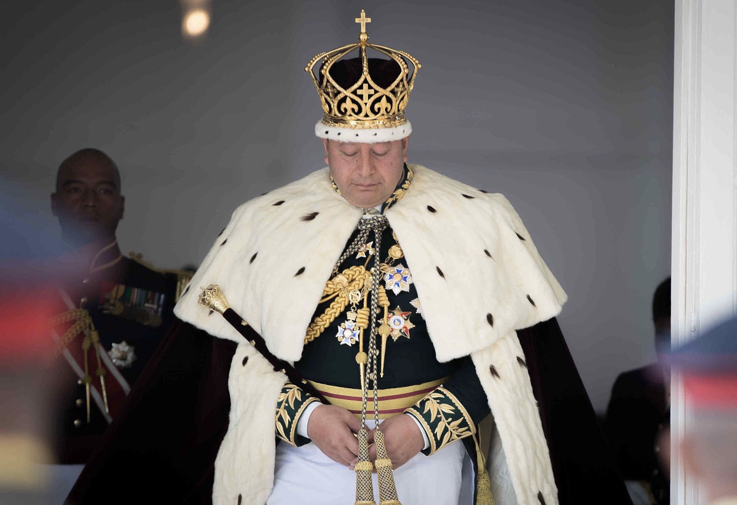 King Tupou VI exits the church after his coronation ceremony in Nuku'alofa, Tonga, July 4, 2015. The U.S. Marine Corps Forces, Pacific Band participated in the coronation ceremonies alongside bands from Tonga, Australia and New Zealand. (U.S. Marine Corps photo by Cpl. Brittney Vito/Released)